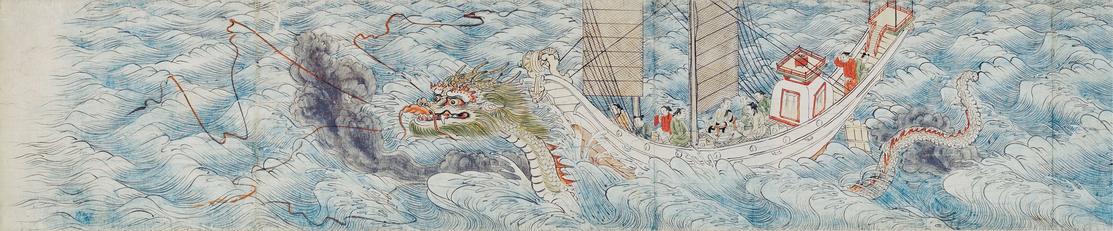 History of the Kegon Sect (紙本著色華厳宗祖師絵伝, shihon chakushoku Kegonshū soshi eden) or Kegon engi (華厳縁起) scroll three(detail). Located at Kōzan-ji. One of six handscrolls (Emakimono). Color on paper. The set of handscrolls has been designate as National Treasure of Japan in the category paintings.